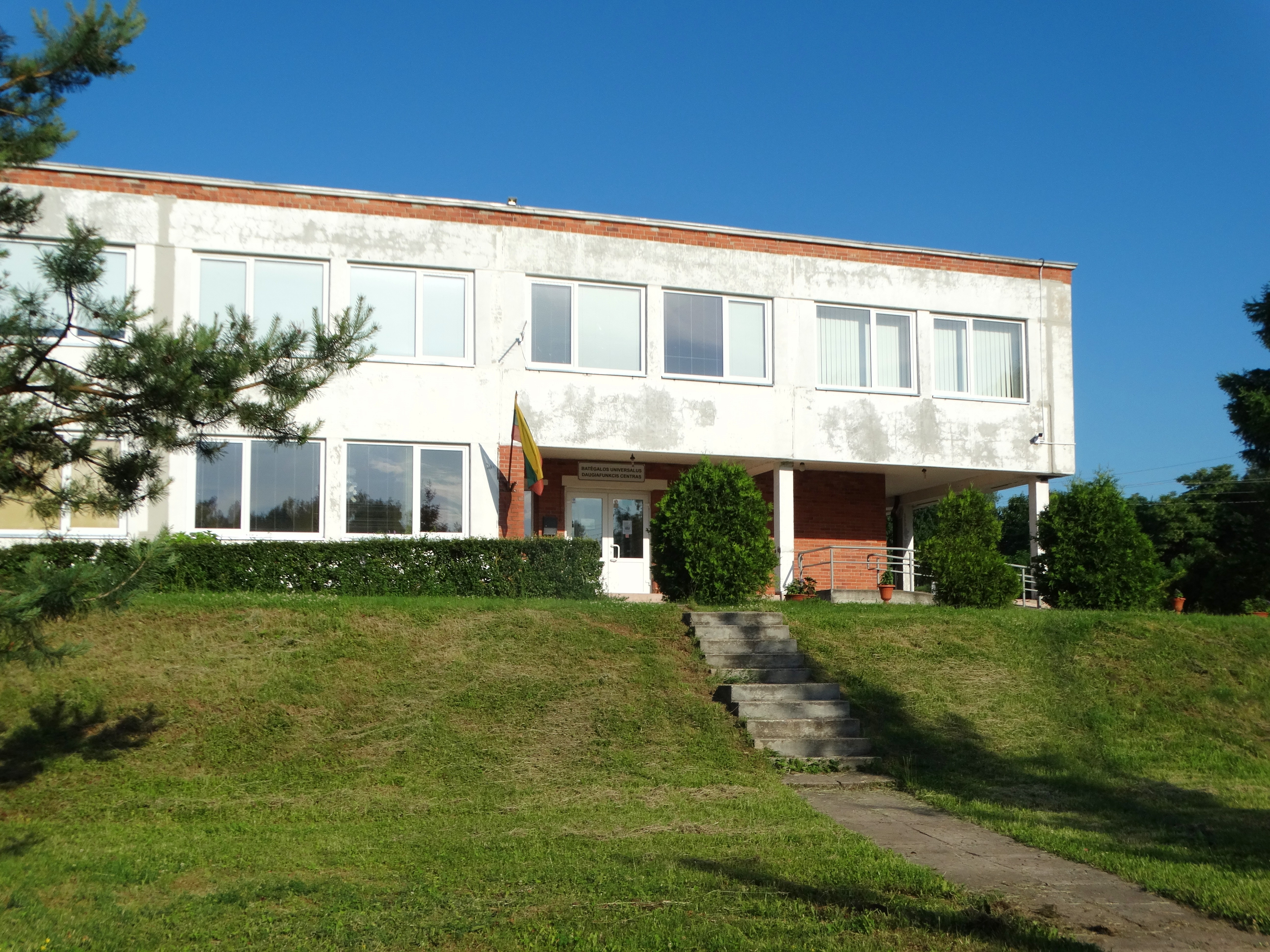 Batėgala, school, Jonava district, Lithuania